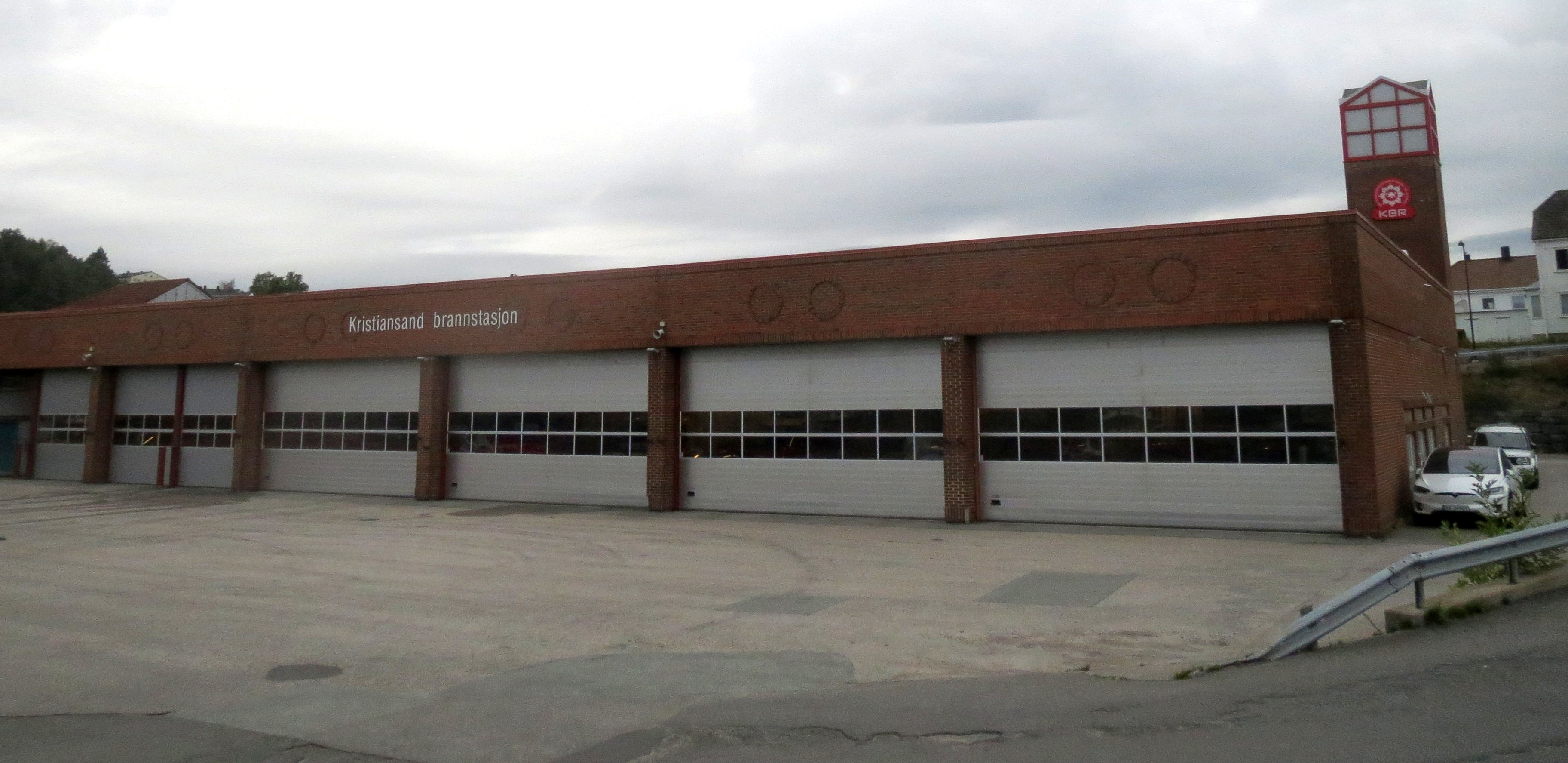 Kristiansand Fire Station, main fire station of Kristiansand regional fire brigade. Kristiansand, Norway (2018)